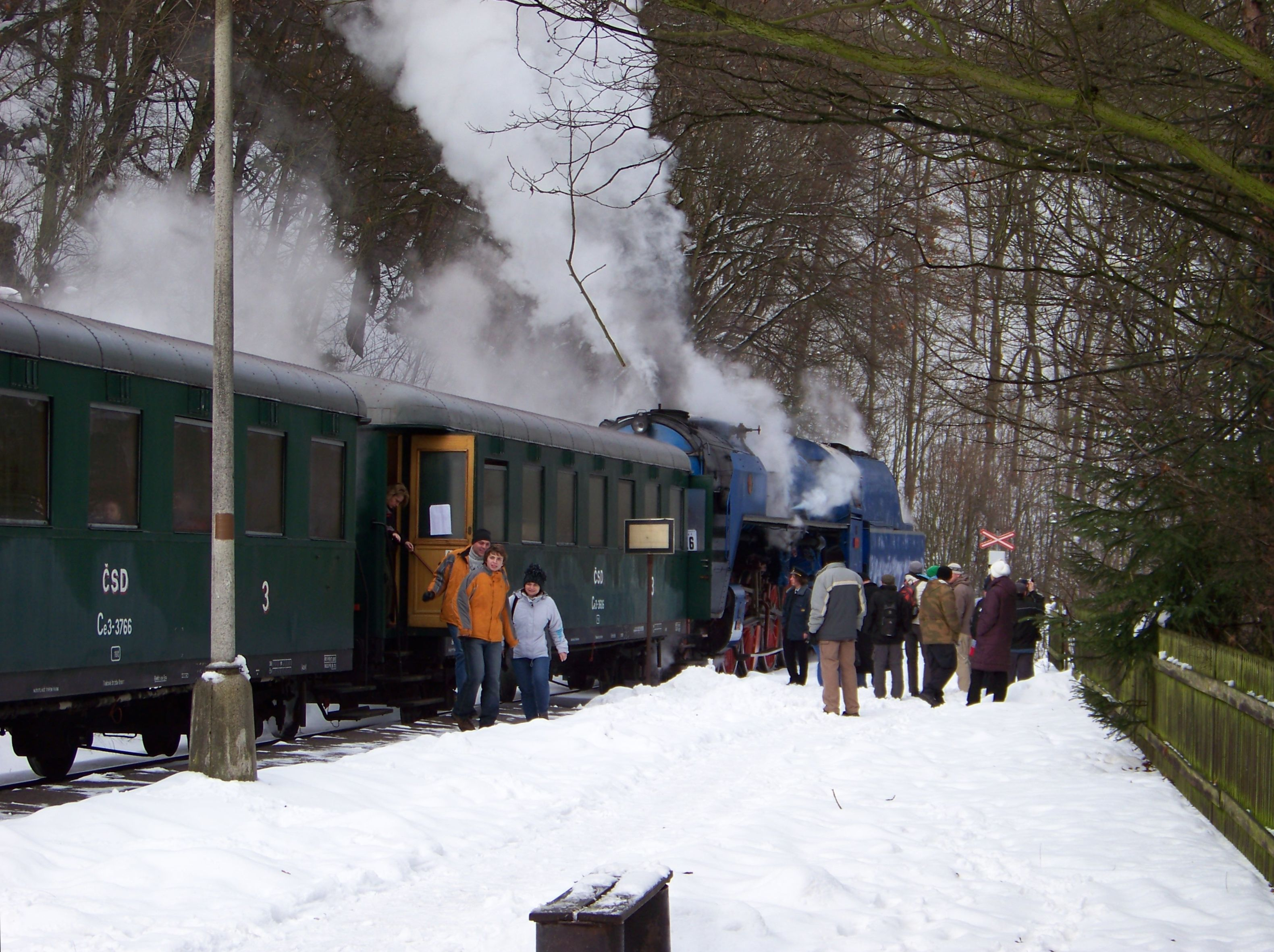 Křivoklát, Rakovník District, Central Bohemian Region, the Czech Republic. Křivoklát expres, a heritage train. - Google Maps - Google Earth